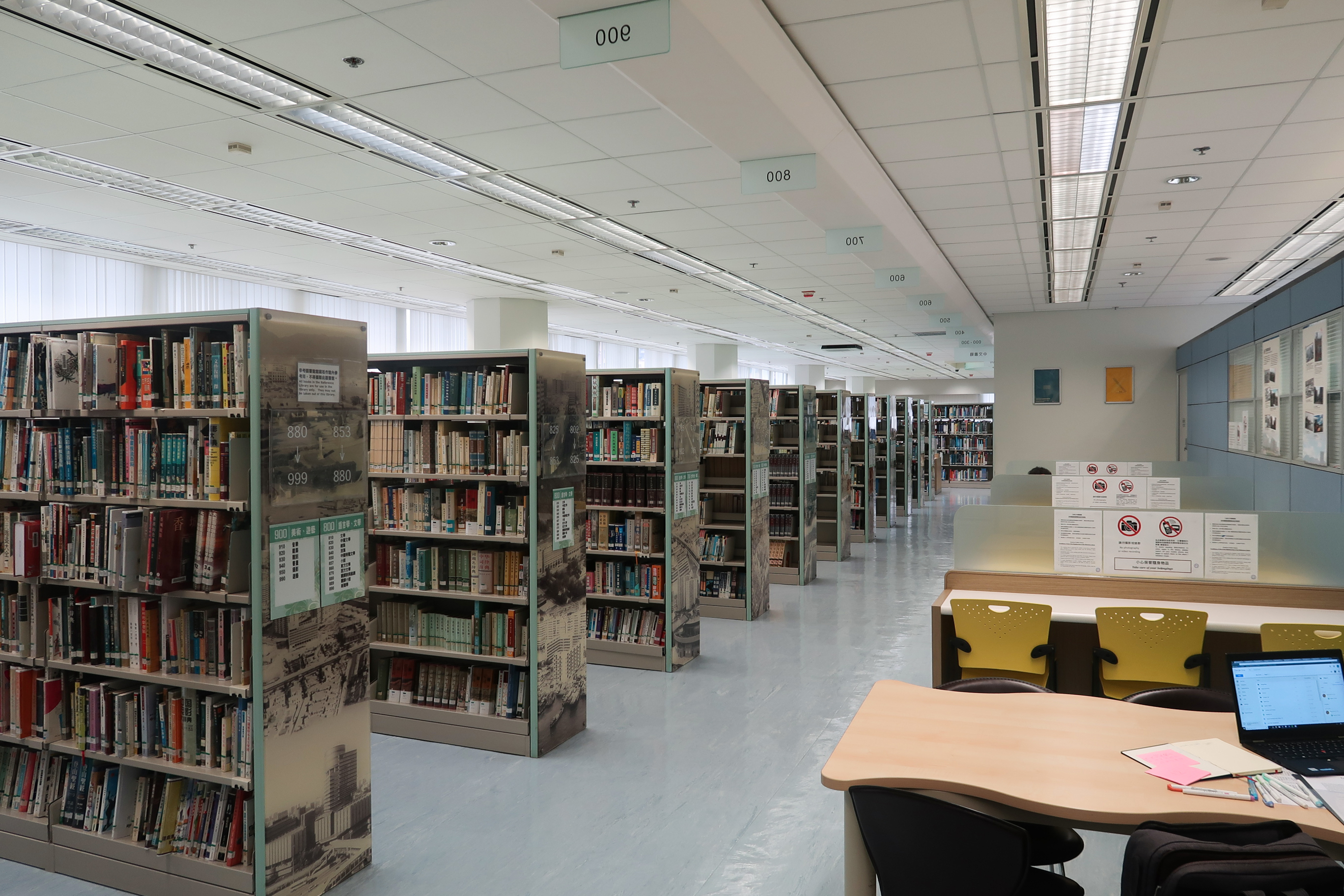 Kowloon Public Library Level 10